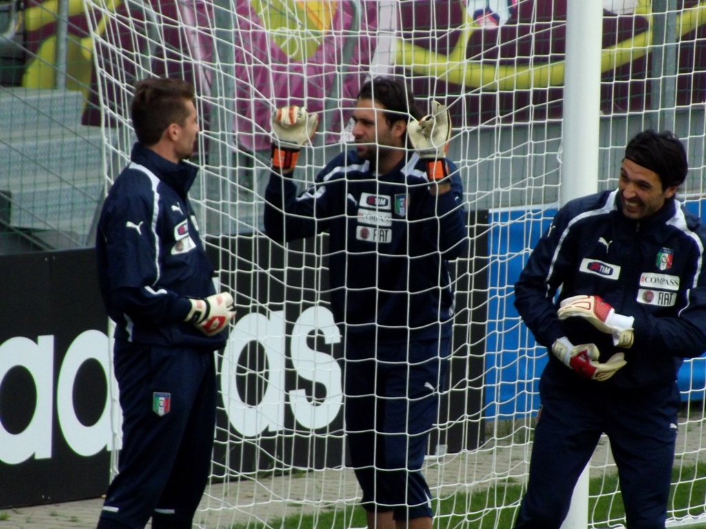 All three Italy goalkeepers for UEFA Euro 2012 - Buffon, De Sanctis and Sirigu.